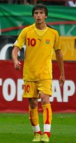 Darko Tasevski in Macedonia national football team